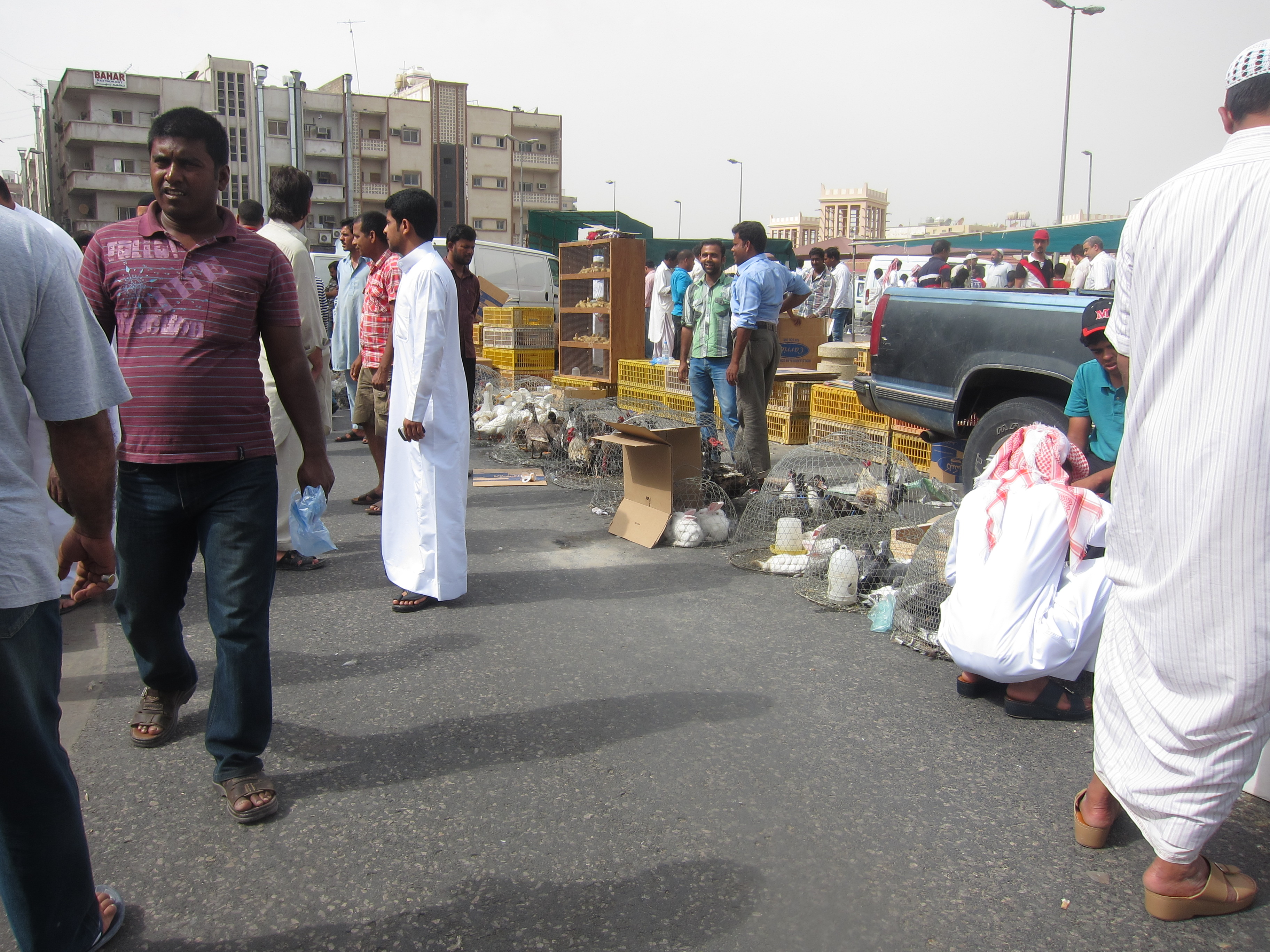 Friday Market in Dammam, Saudi Arabia വെള്ളിയാഴ്ച് വിപണി, ദമാം, സൗദി അറേബ്യ വെള്ളിയാഴ്ച് രാവിലെ മാത്രം ദമാമിൽ പ്രവർത്തിക്കുന്ന പക്ഷി-മൃഗ വിപണിയുടെ ദൃശ്യങ്ങൾ... മുയൽ, പട്ടി, പൂച്ച, നാടൻ കോഴികളും ബ്രൊയിലറും, തത്ത, പ്രാവ്, ലൗവ് ബേർഡ്സ്, കാട, ഉടുമ്പ്, എലി തുടങ്ങി എല്ലാം വിപണിയിലുണ്ടാകും...